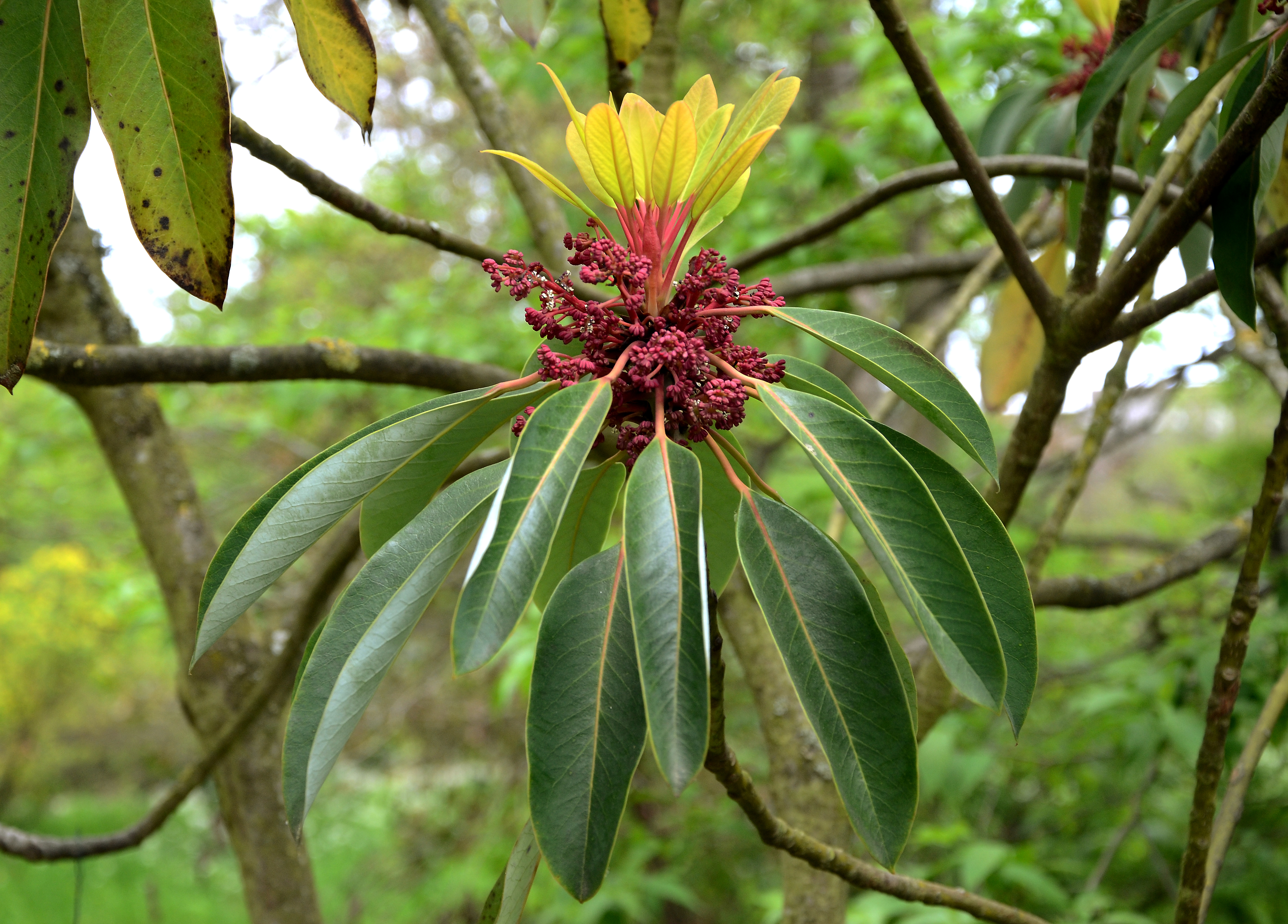 Daphniphyllum macropodum